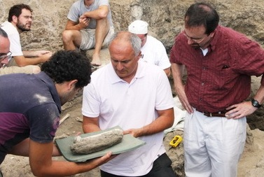 Ambassador John Bass and David Lordkipanidze, Director of the Georgian National Museum, study a hominid humerus found at the research site at Dmanisi.